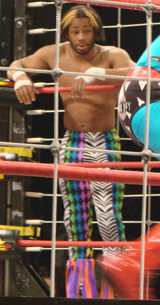 Jay Lethal at Lockdown (2007). Family Arena, St. Charles, MO, April 15en:2007.